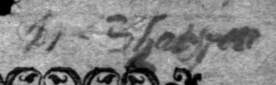 Signature found written on the title page of Lambarte's 'Archaionomia thought to be by Shakespeare